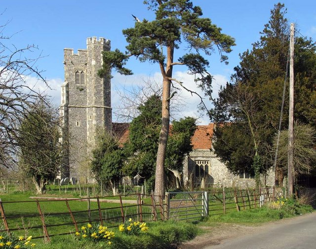 St Nicholas, Rodmersham, Kent